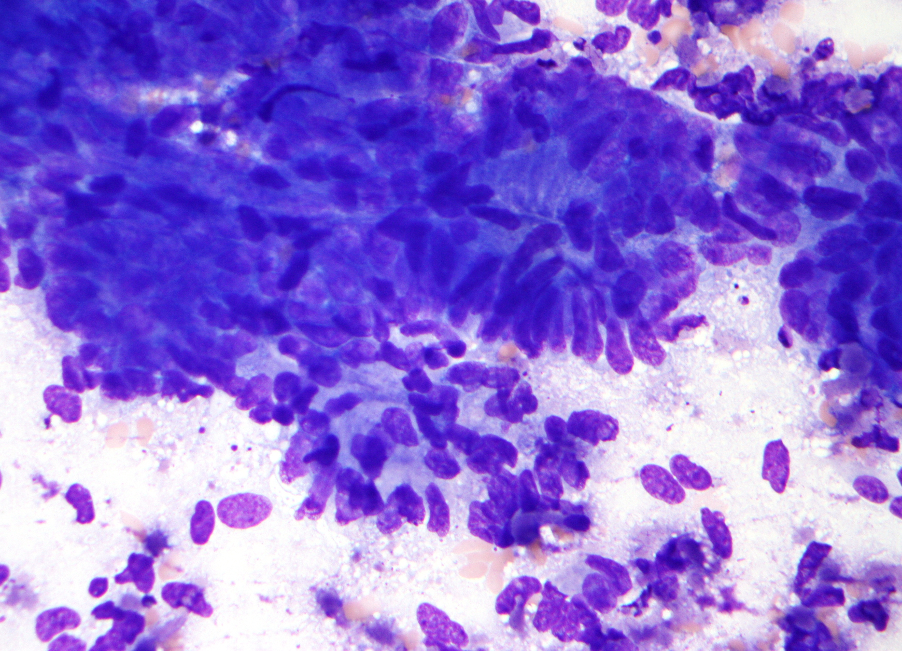 Micrograph of colonic adenocarcinoma. Lung FNA specimen. Field stain. The micrograph shows the characteristic pseudostratified cigar-shaped nuclei, in acinar arrangements. Related images Low mag. Intermed. mag.